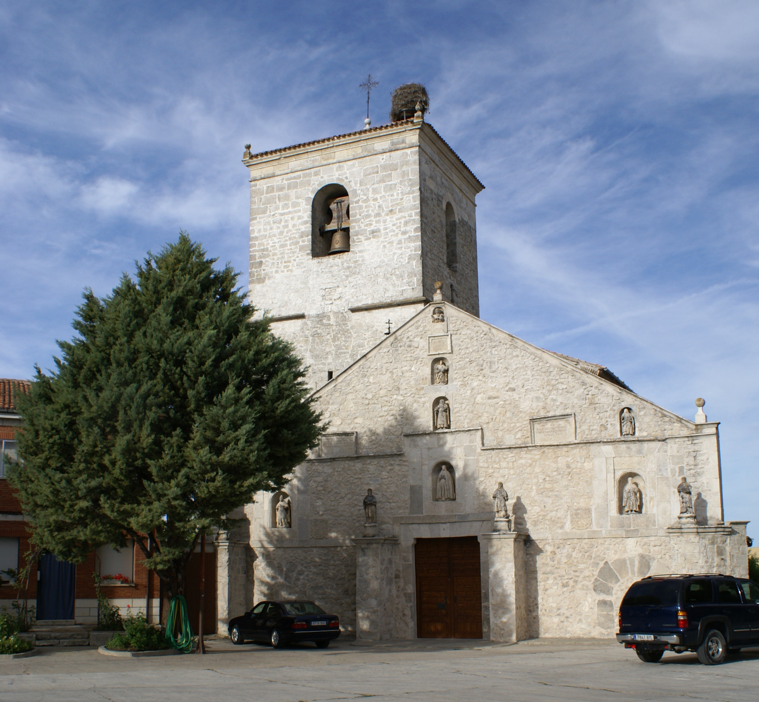 Church of Our Lady of Assumption in Cogeces del Monte, Valladolid, Spain